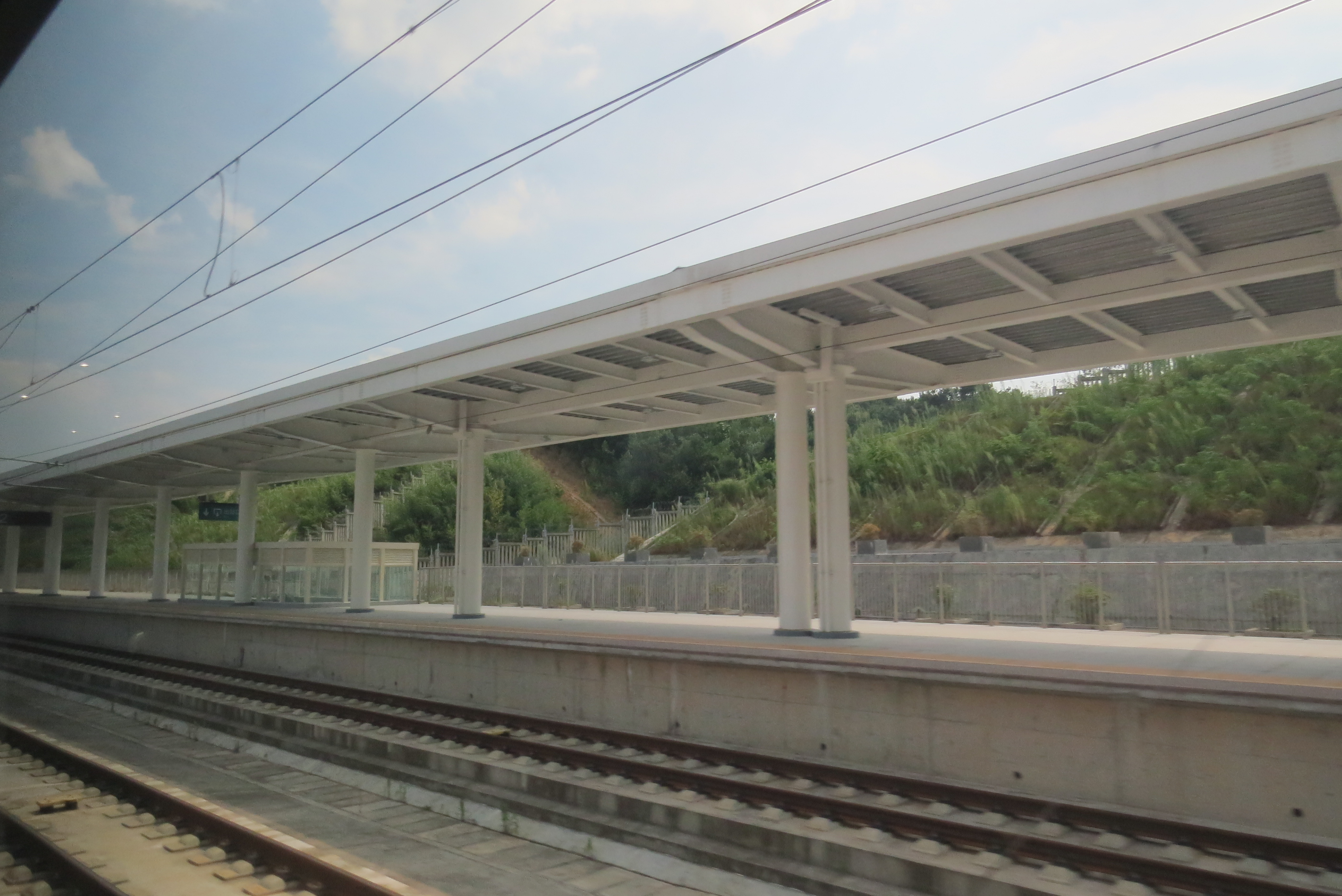 G27 passed at 300km/h. This station is located in Nanling County, Wuhu.